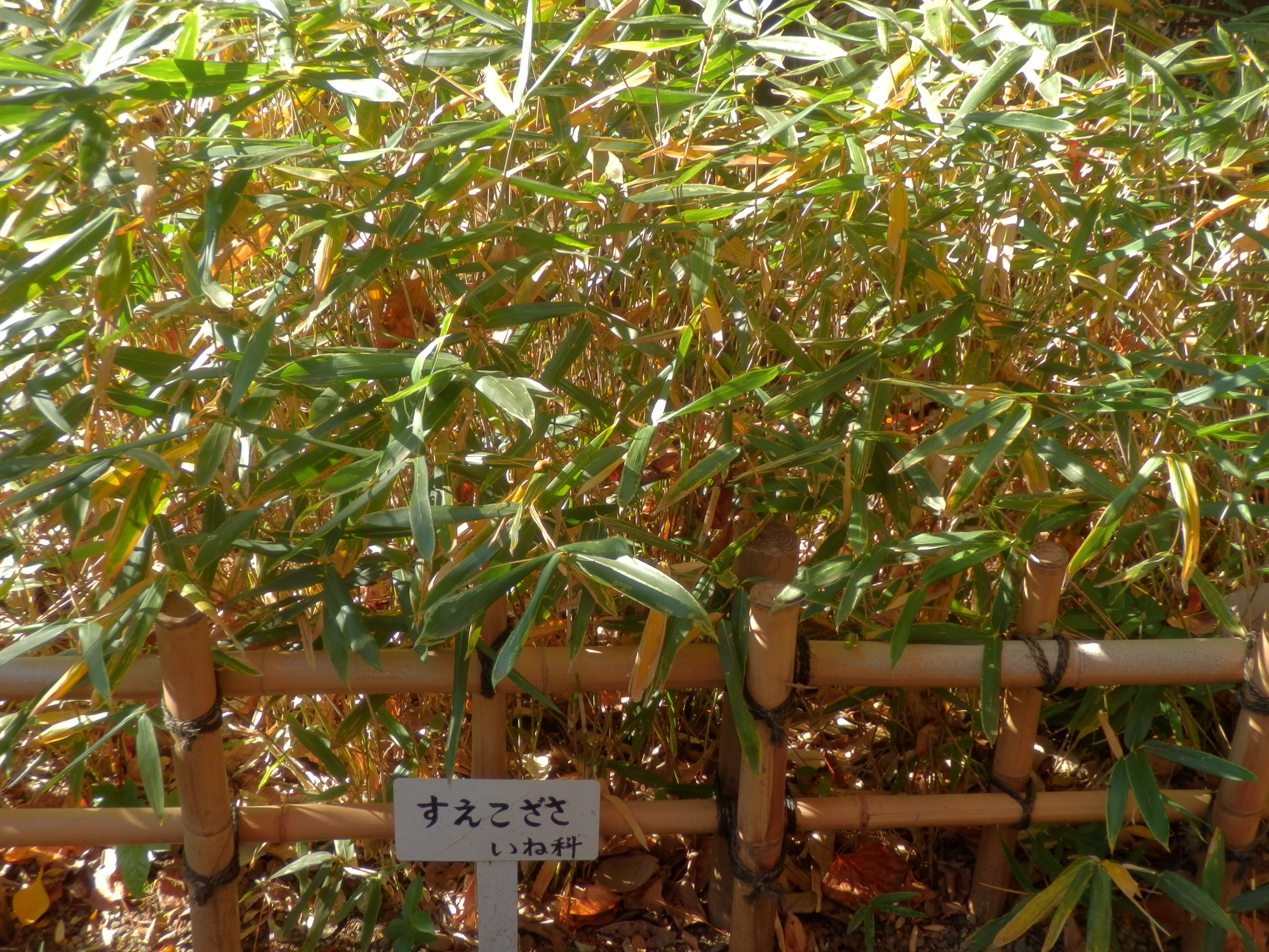 Sueko-zasa (A bamboo indigenous to Japan)